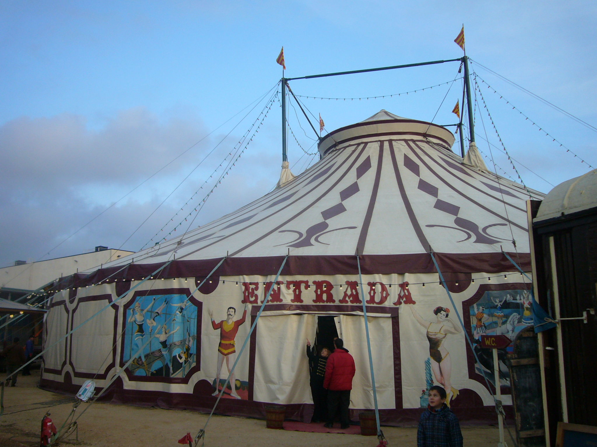 Circ Raluy - tent in Igualada